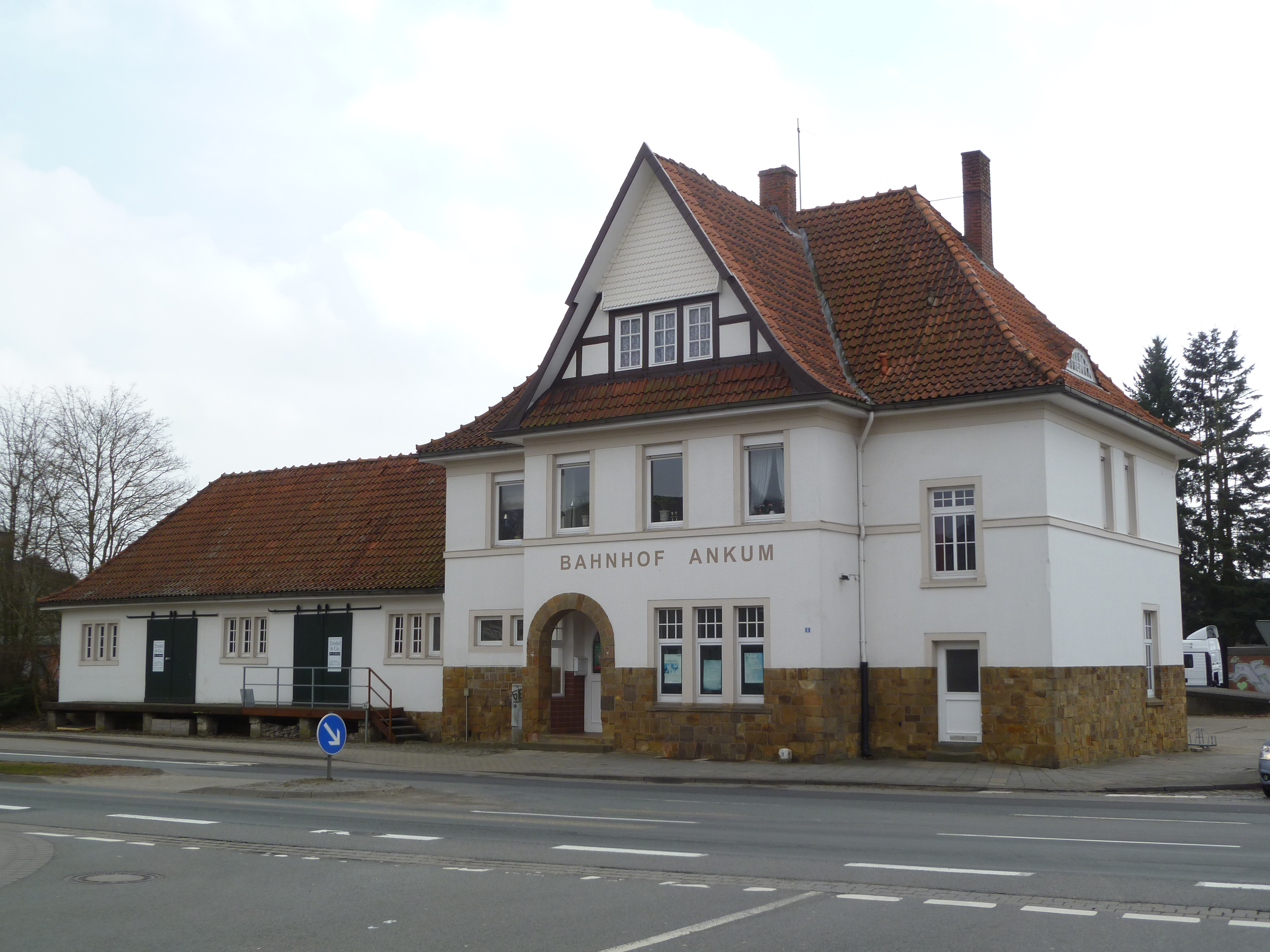 Railwaystation Ankum